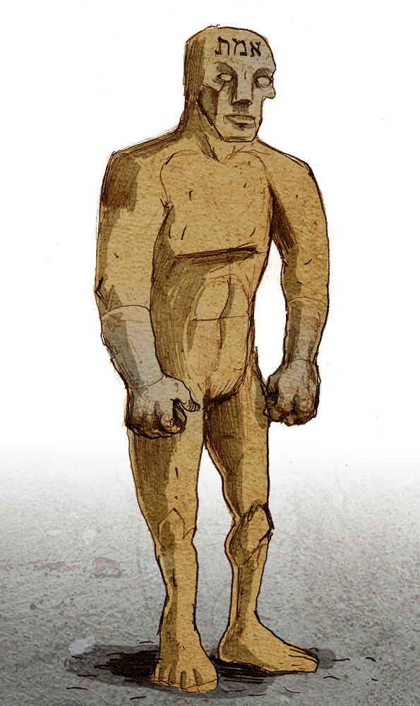 Illustration of a golem by Philippe Semeria. The Hebrew word for Truth, one of the names of God, is written on his forehead.